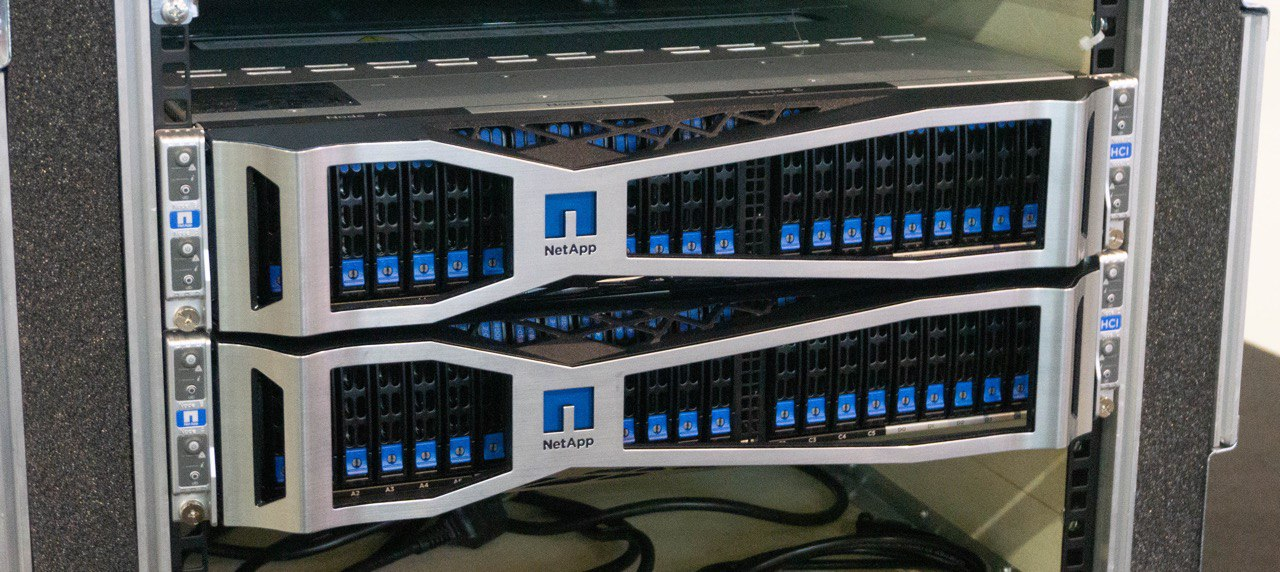 NetApp HCI